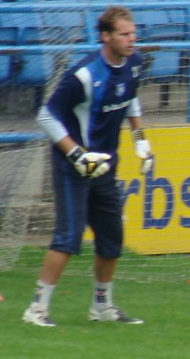 Alan Julian, taken at Gills open day